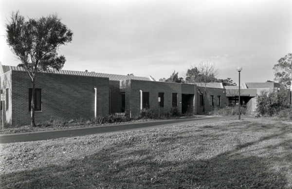 The John Cade acute unit at the former Royal Park Psychiatric Hospital